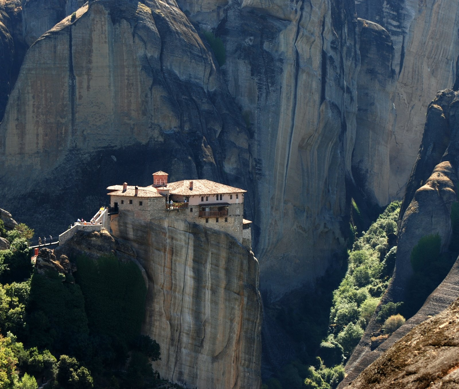 The Roussanou/Barbara monastery, Meteora, Thessalia, Greece